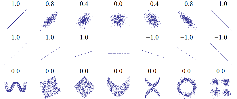 See below.